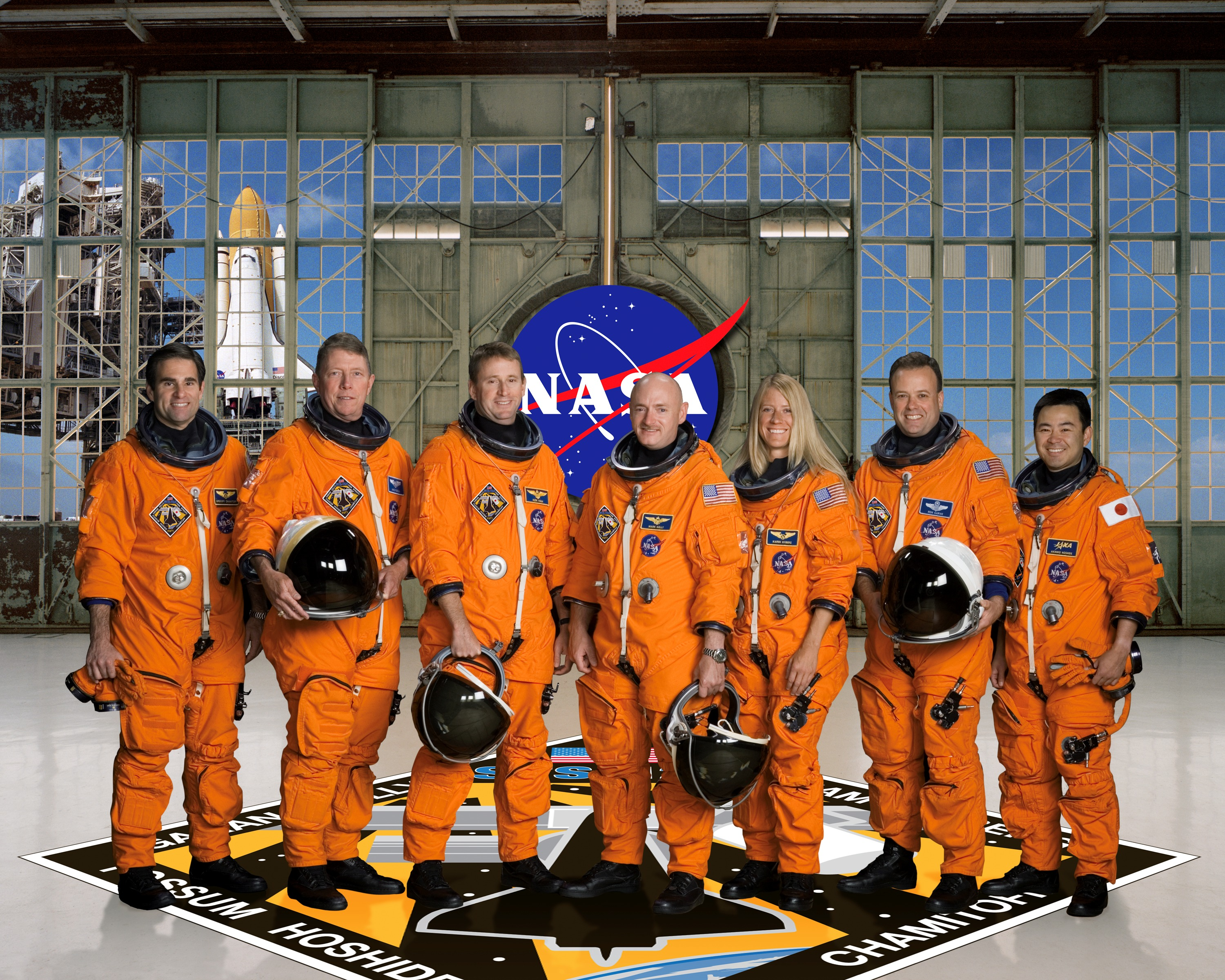 Official crew portrait image of STS-124 space shuttle crew; From the left are astronauts Gregory E. Chamitoff, Michael E. Fossum, both STS-124 mission specialists; Kenneth T. Ham, pilot; Mark E. Kelly, commander; Karen L. Nyberg, Ronald J. Garan and Japan Aerospace Exploration Agency's (JAXA) Akihiko Hoshide, all mission specialists. Chamitoff is scheduled to join Expedition 17 as flight engineer after launching to the International Space Station on mission STS-124. The crewmembers are attired in training versions of their shuttle launch and entry suits.